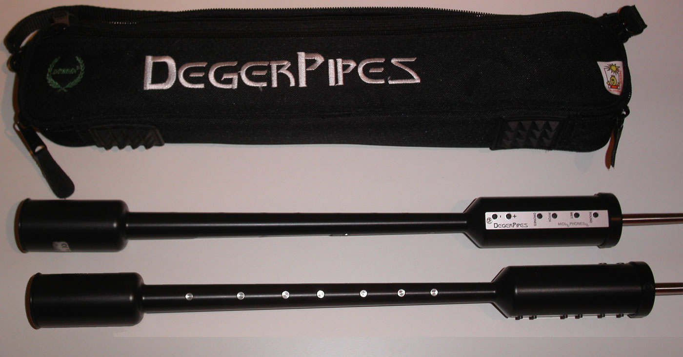 The DegerPipes Electronic Bagpipe Chanter with accompanying carrying case. Photo by Alexander Skinner (Neonapple) 00:45, 16 November 2006 (UTC)